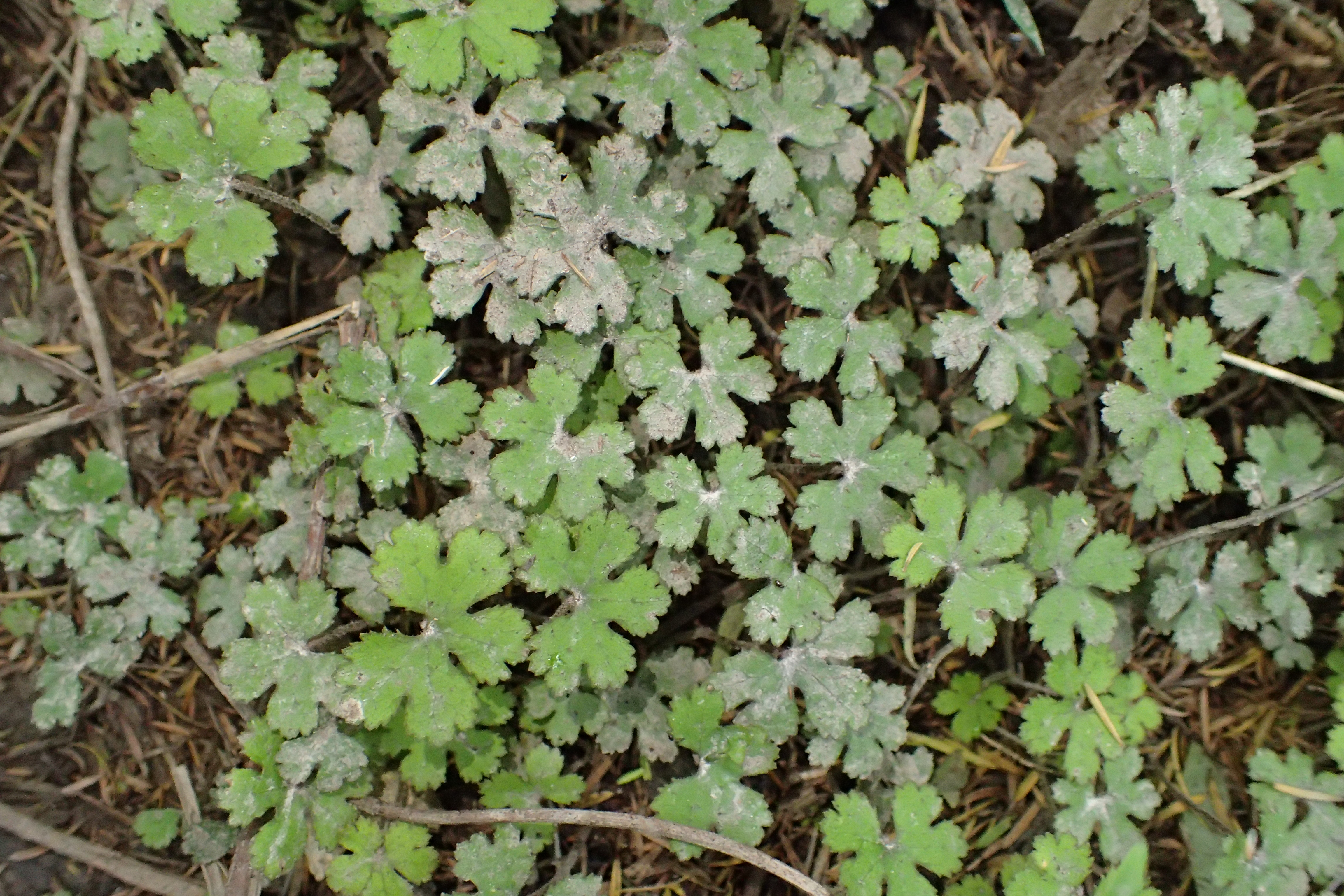 Hydrocotyle elongata near Te Reinga Falls, Hawkes's Bay (New Zealand)